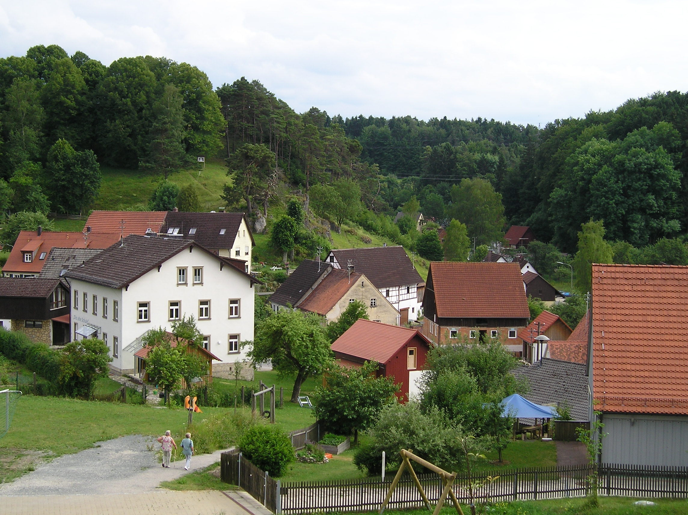 In the background you can see a mountainside called Pinselleite which is one of the feedlots for sheepherds around the valley where the village of Thuisbrunn is located within (in the Franconian Swiss mountain range in Bavaria, Germany) that are interesting dry biotopes. In the foreground you can see houses of the village of Thuisbrunn. The photo was taken from a place next to the church.